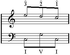 Schenkerian Ursatz. Image made with Finale and PaintShopPro